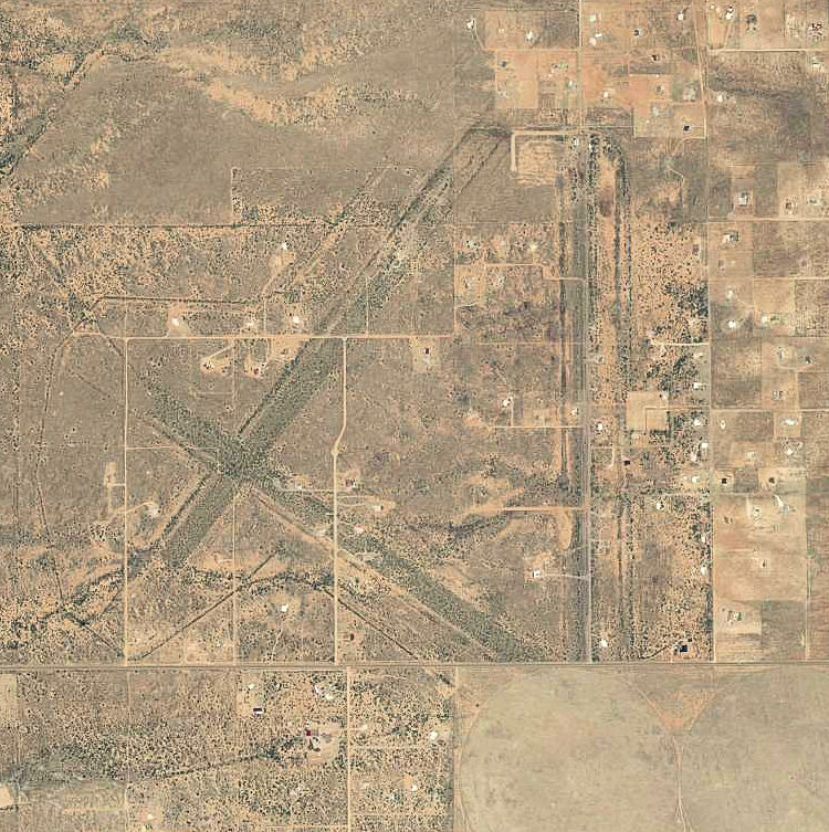 USGS digital orthophoto of Hereford Army Airfield in Hereford, Arizona, United States